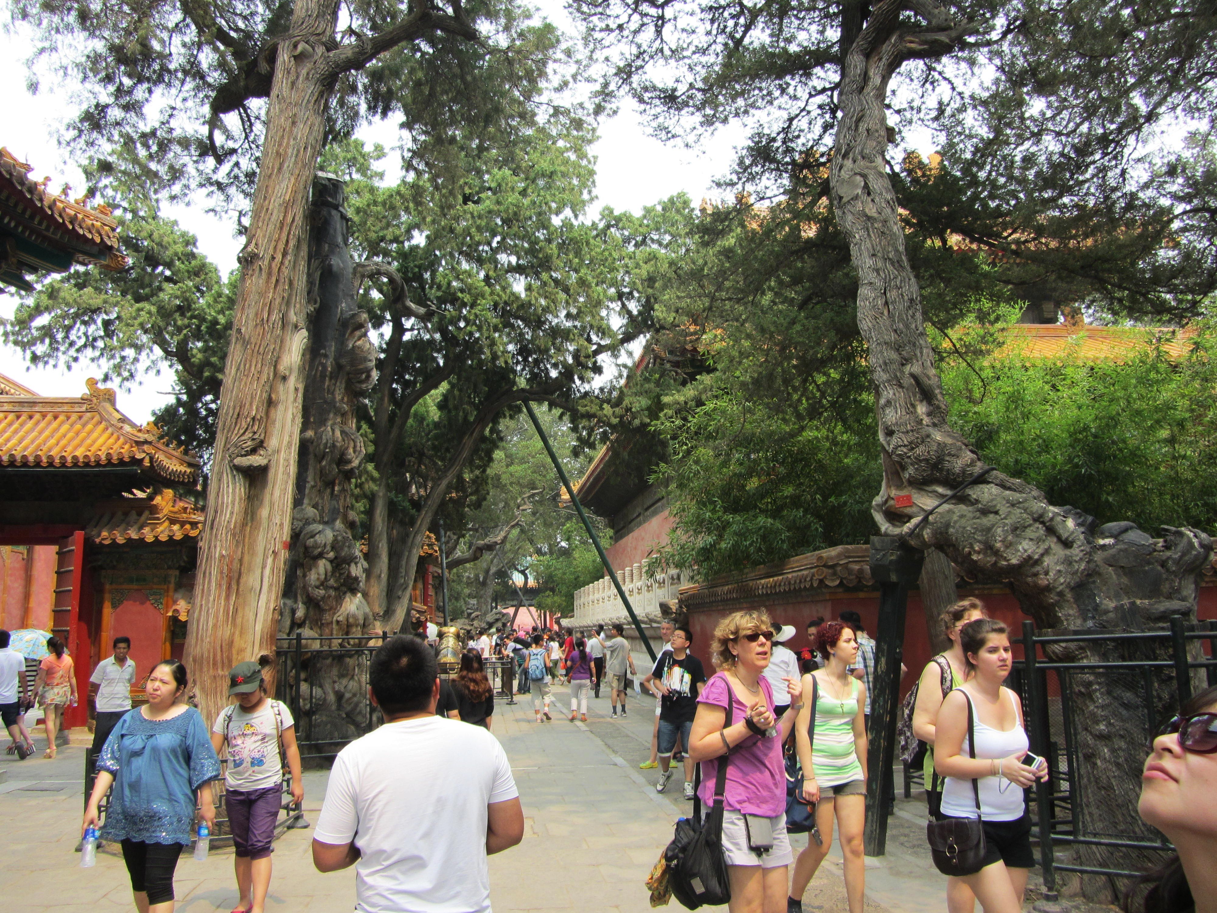 Forbidden City, Garden, 2012